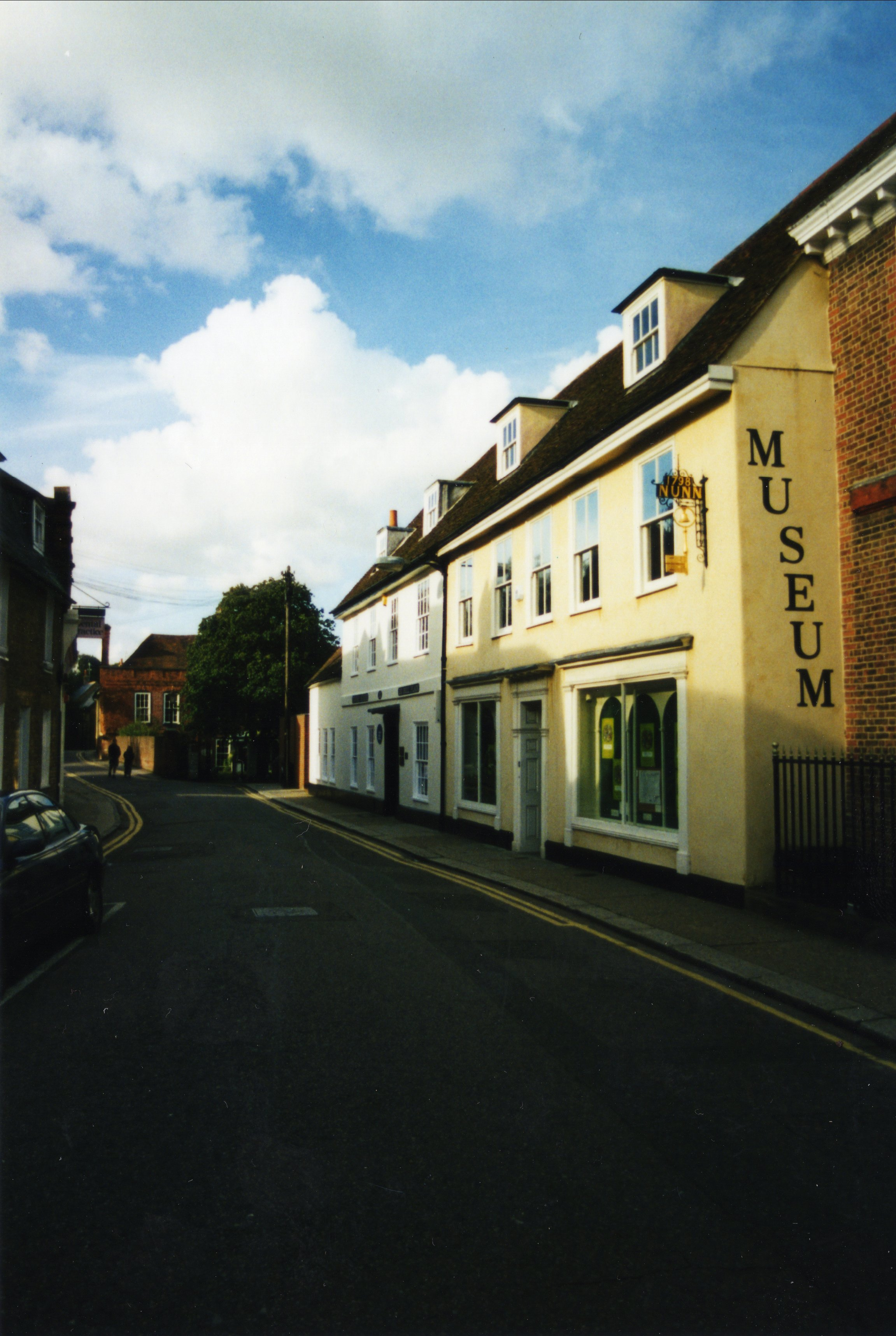 A long history (dating from 673AD!) Small Museum!